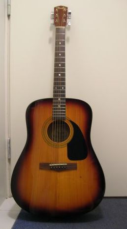 acoustic fender guitar DG-4/TS